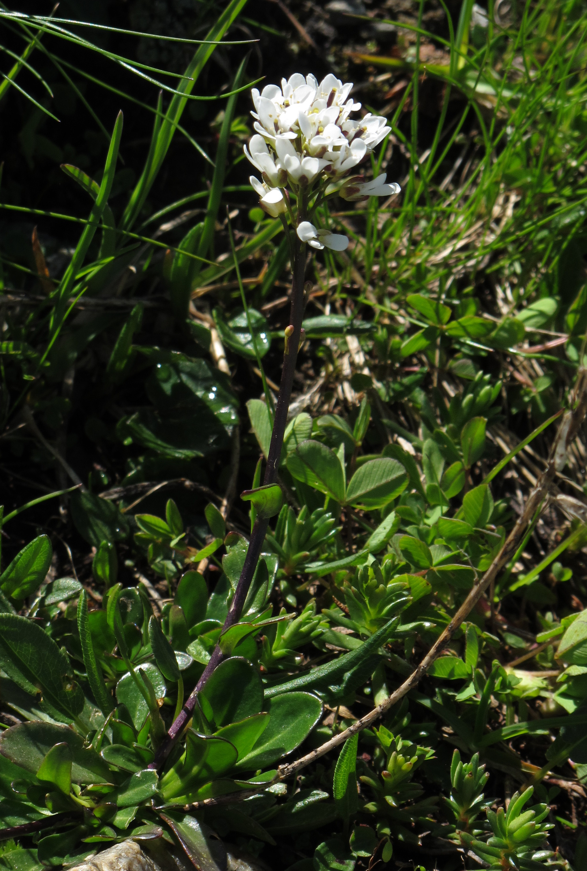 Arabis soyeri subsp. subcoriacea, Upper Engadine, Switzerland